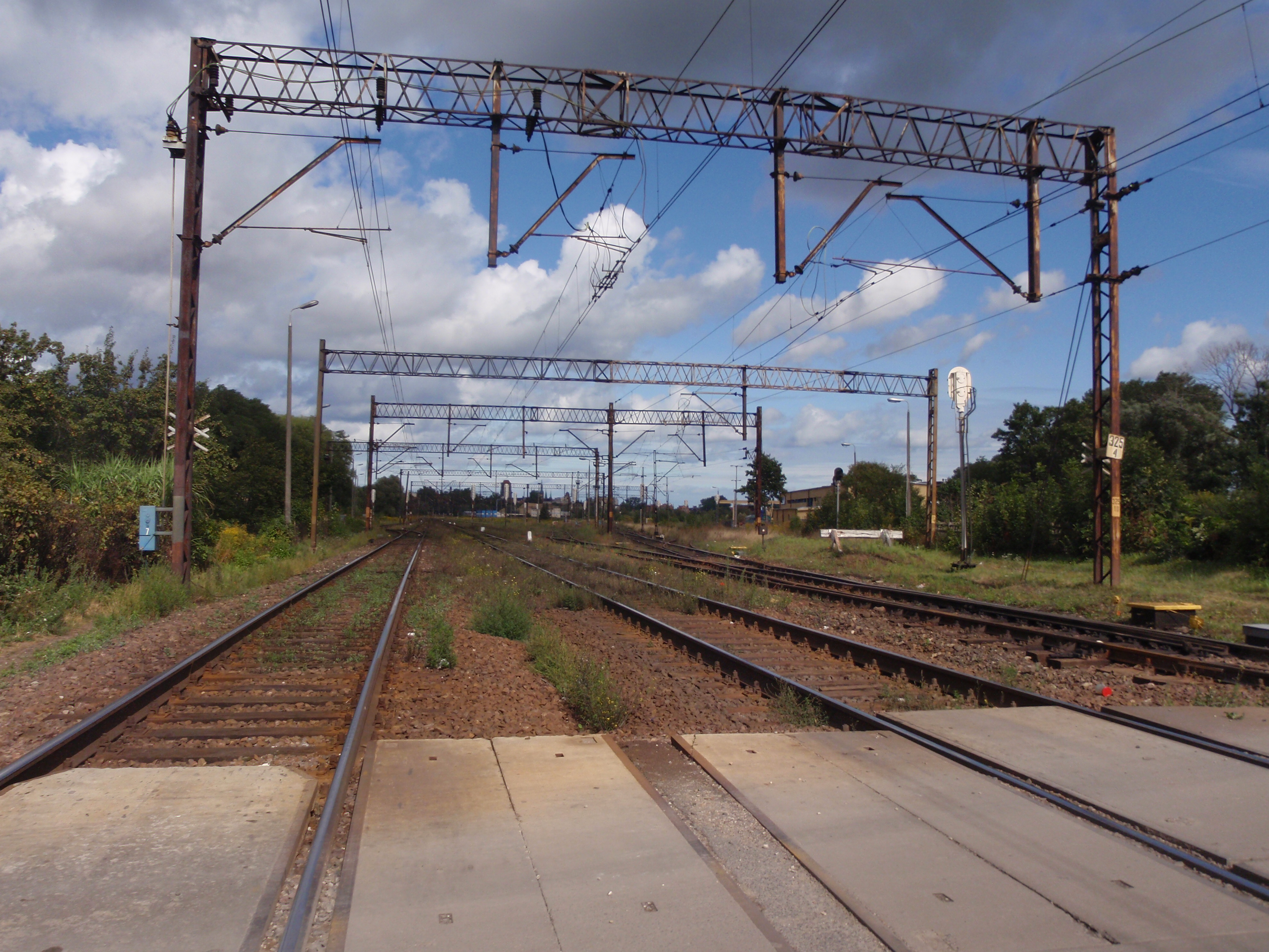 head of train station Gdańsk Południowy